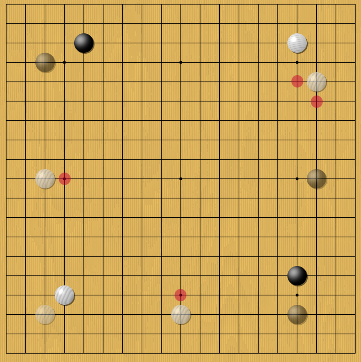 Go - first moves natural development